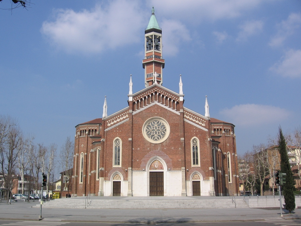 The church of Santa Valeria in Seregno